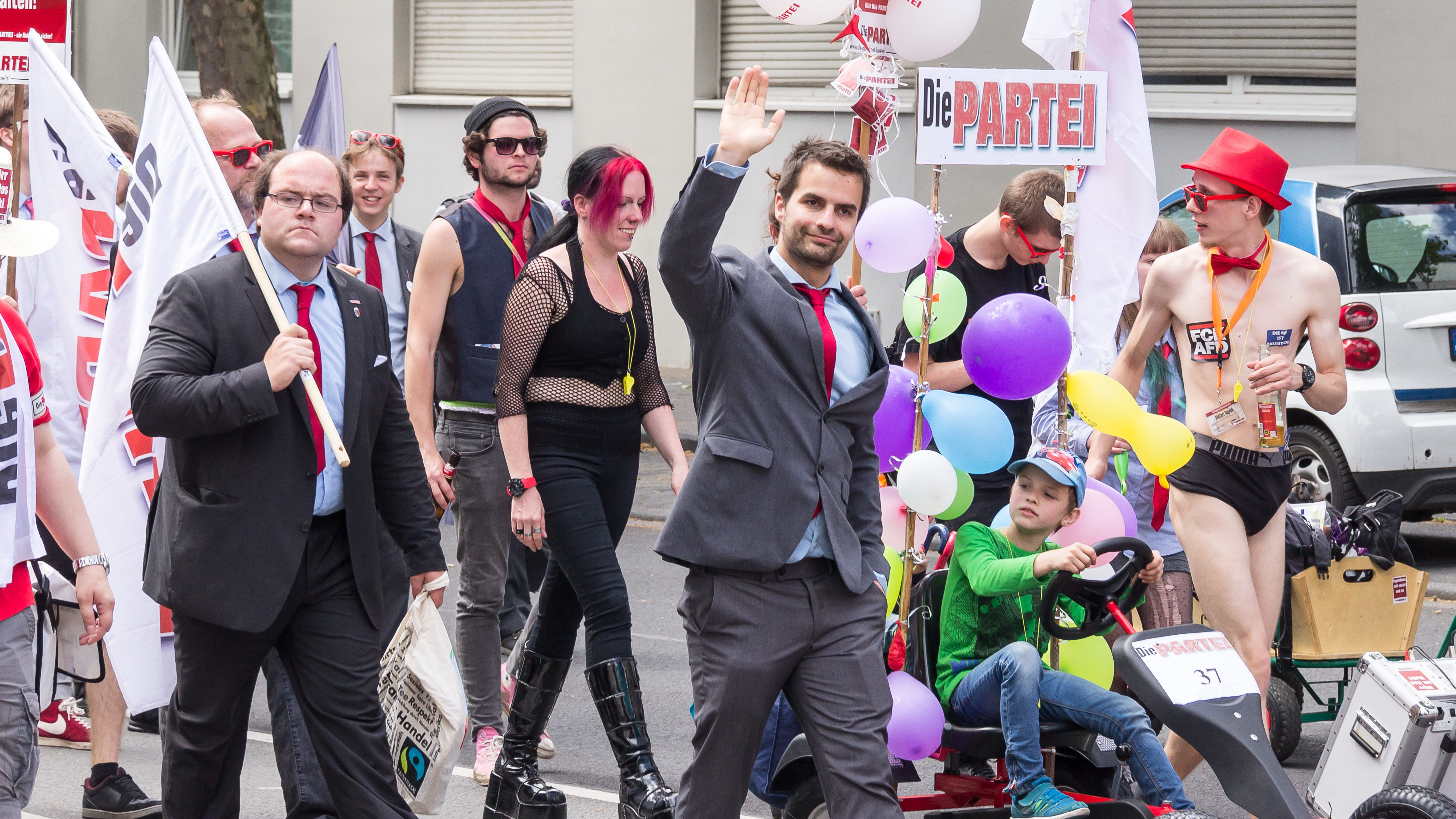 Participants on the political demonstration ColognePride/CSD